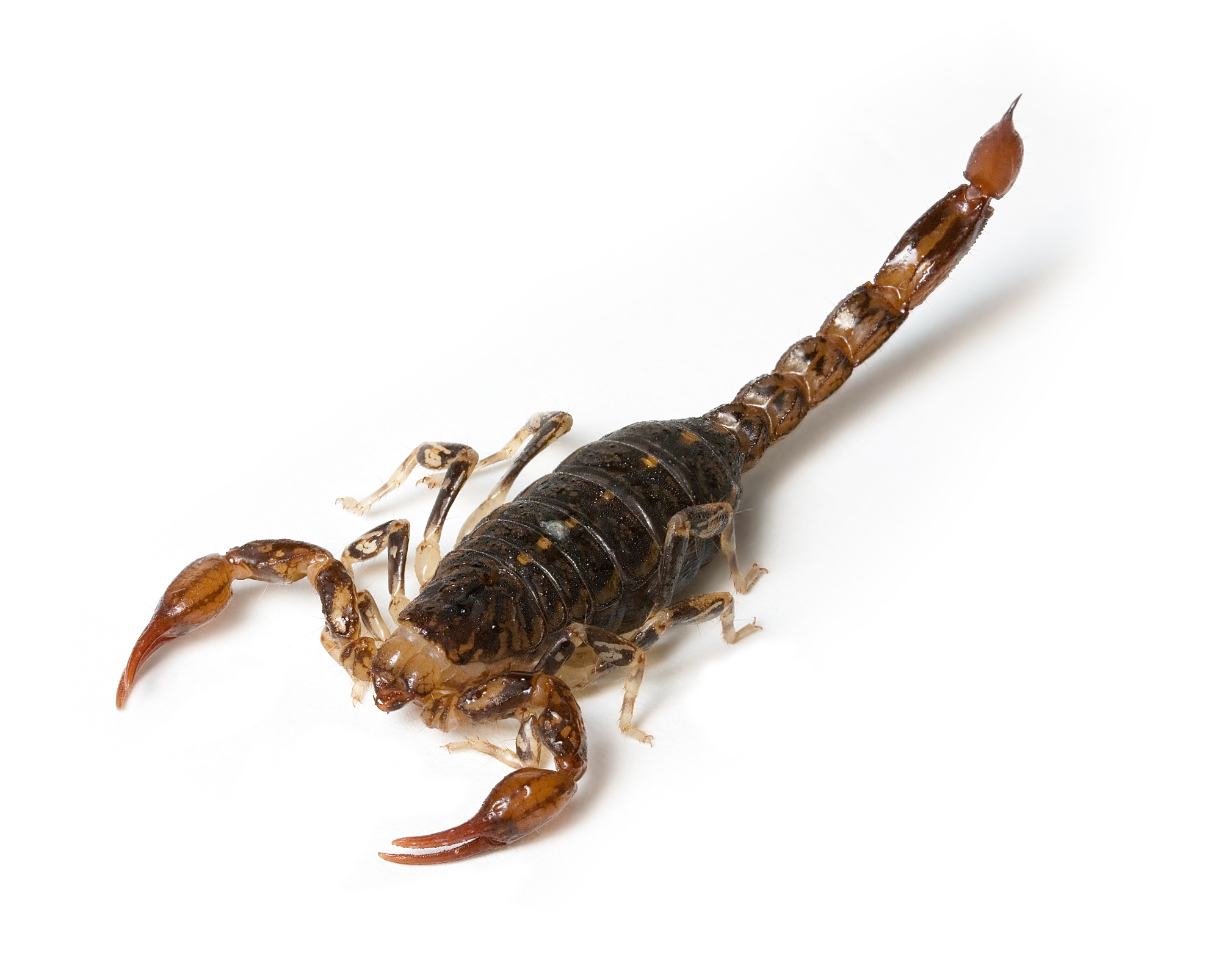 Southern Scorpion (Cercophonius squama) in Tasmania, Australia Camera data Camera Canon EOS 400D Lens Canon EF 70-200mm f4L w/ 36mm + 24mm + 12mm extension tubes Flash Softbox Focal length 126 mm Aperture f/11 Exposure time 1/200 s Sensivity ISO 400